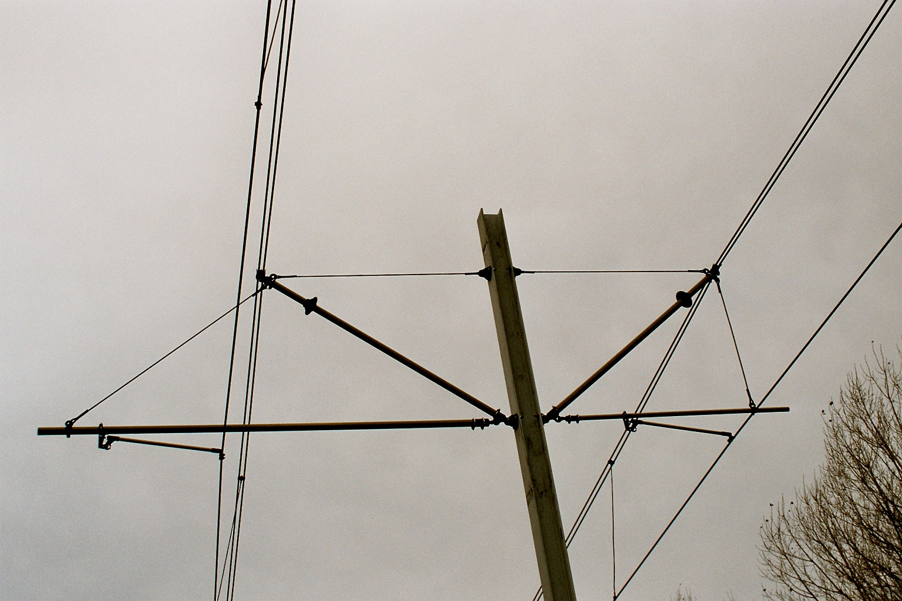 Keywords : SNCV, VVM, vicinal railways, rail, metre gauge, tram, train, overhead, catenary suspension, Knokke-Heist, Belgium